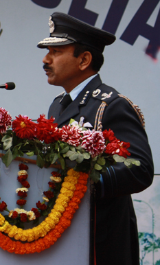 Air Chief Marshal Arup Raha, the current chief of air staff of the Indian Air Force